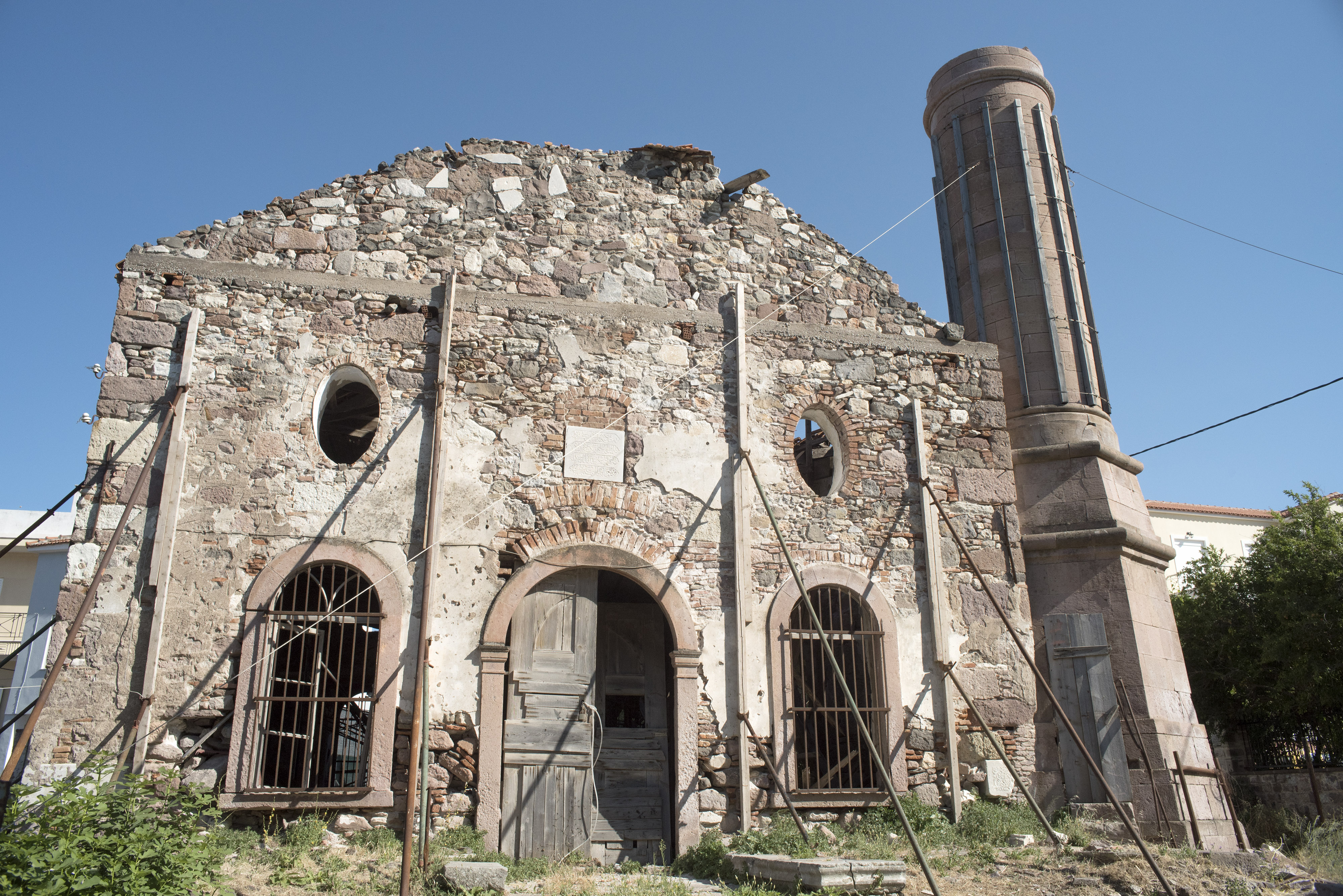 Valide mosque, Epano Skala, Mytilene, Lesvos, Greece.